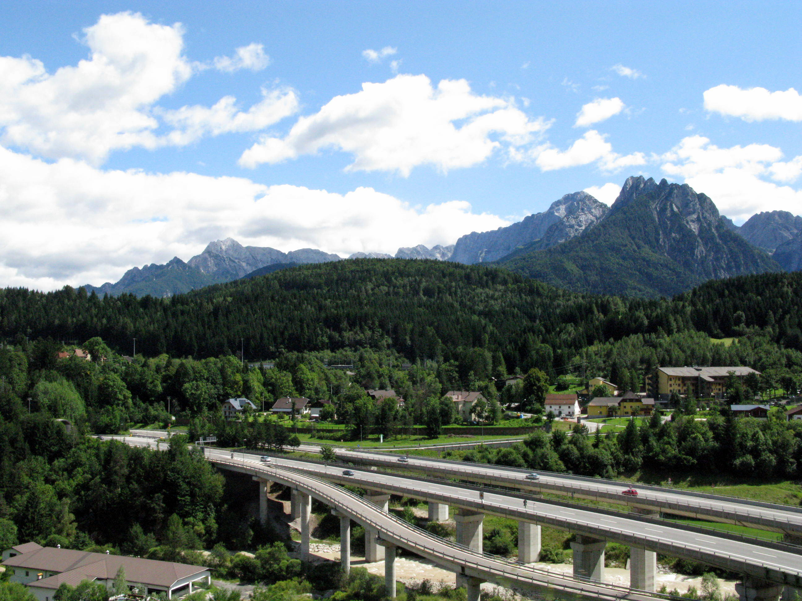 Exit East of Tarvisio in Friuli-Venezia Giulia / Italy / EU. In the background the Julian Alps.